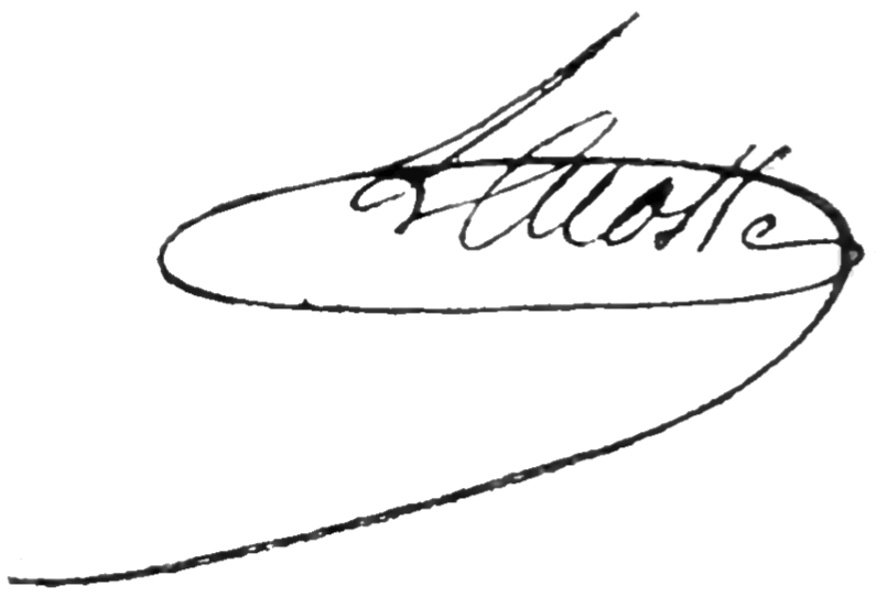 Signature of french general André Bruno Frévol, Count of Lacoste (1775-1809)